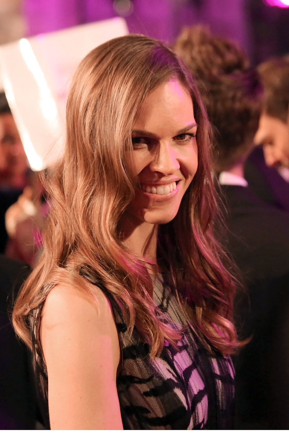 Hilary Swank on the 'magenta carpet' at Life Ball 2013 at the square in front of the city hall of Vienna, Vienna, Austria.